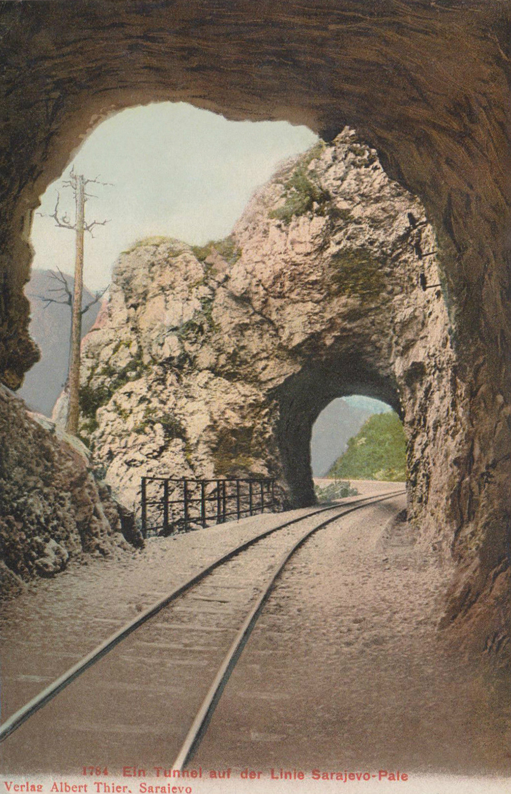 The western portal of the tunnel No. 7 as seen from the tunnel No. 6 towards Pale